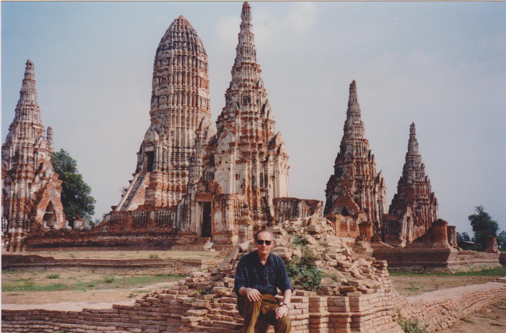 Ayutthaya - Temple complex in 1996